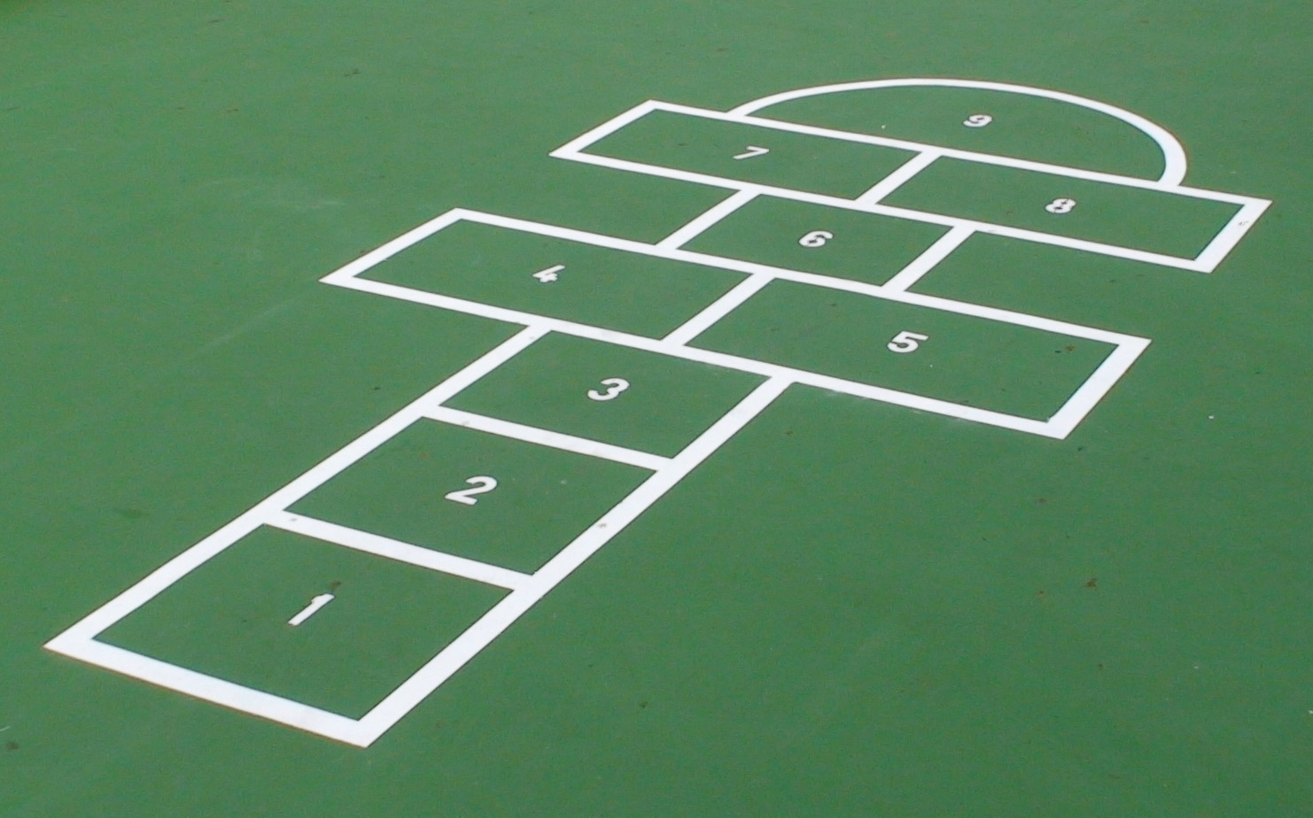 Hopscotch